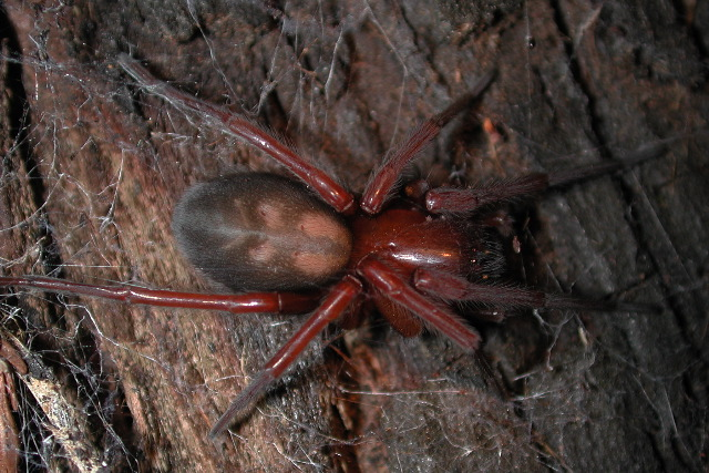 Callobius sp. on redwood, northern California.